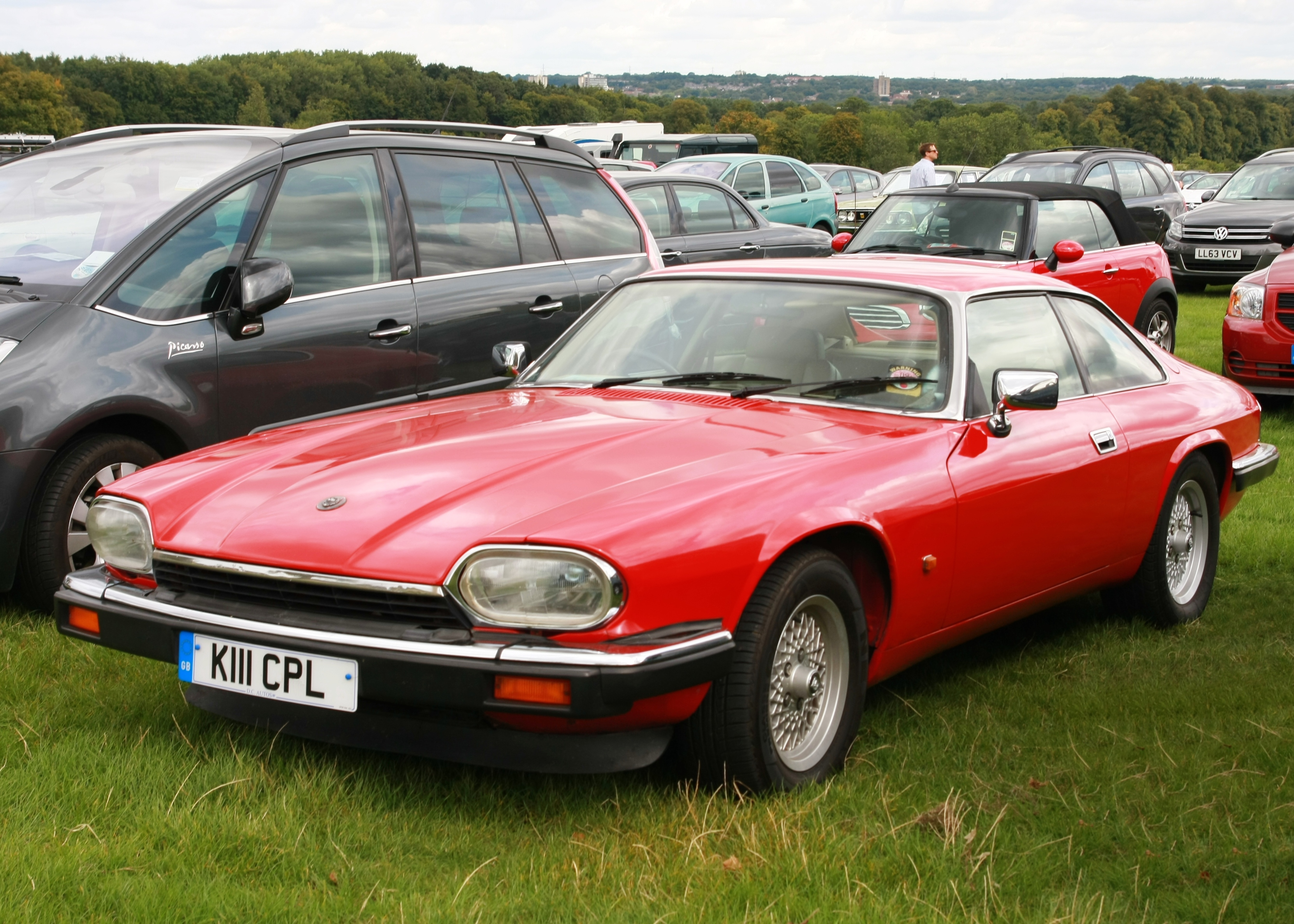 Jaguar XJ-S (1992 - ie just after they reworked - made thinner - the C-pillar) at Knebworth (2014)